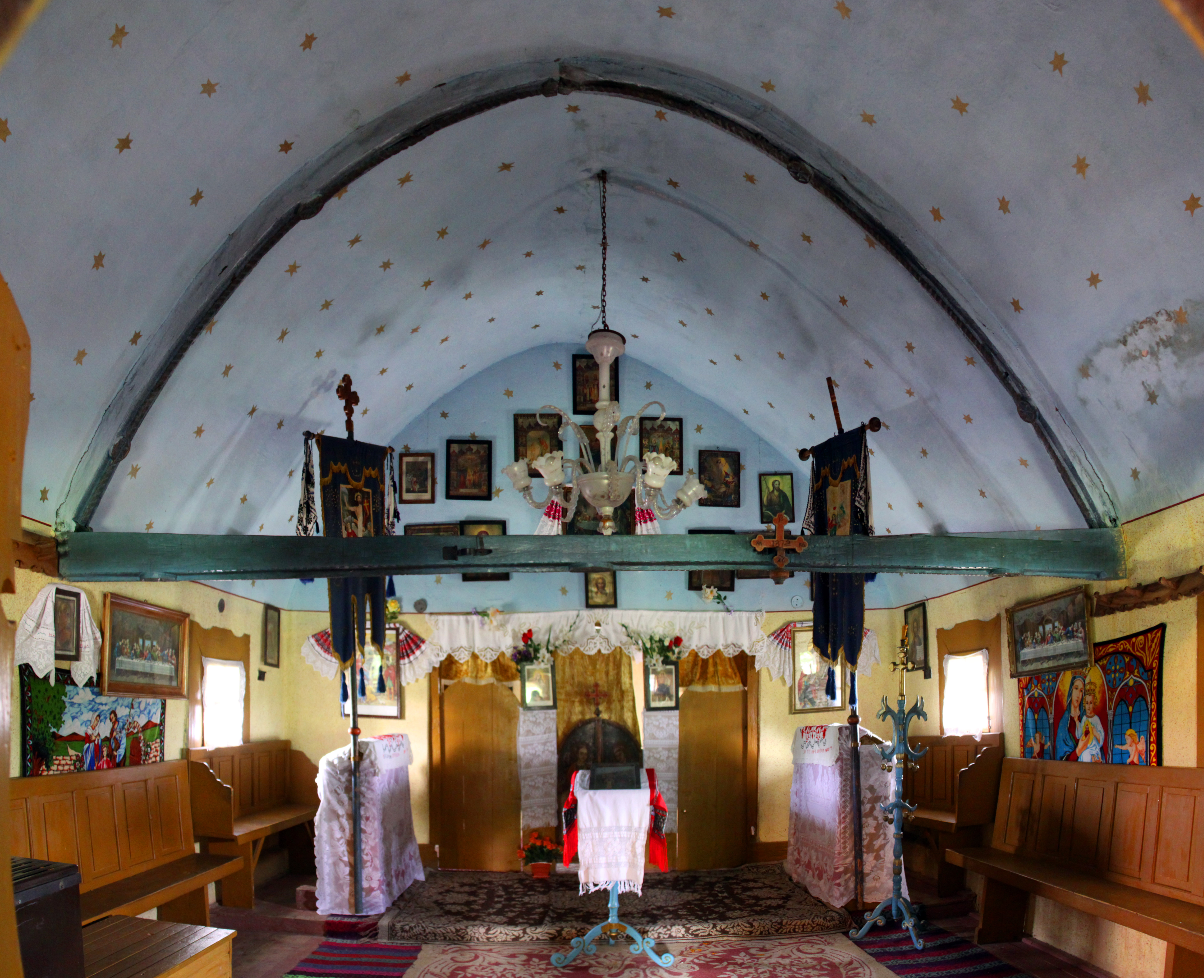 Talpe, Bihor: the wooden church. Nave, iconostasis.